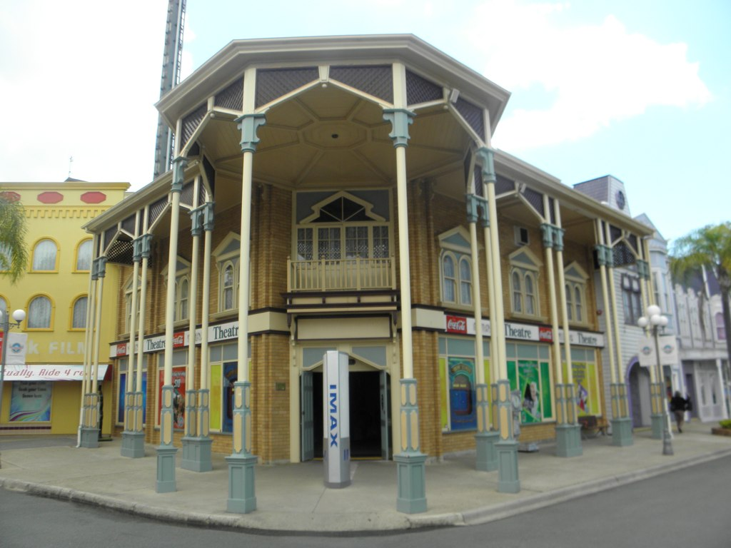 The entrance of the IMAX Theatre at Dreamworld.